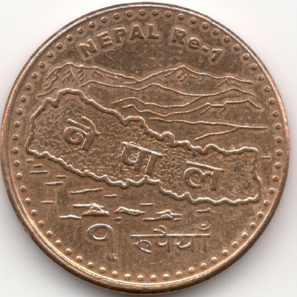 Nepali 1 rupee-Republic